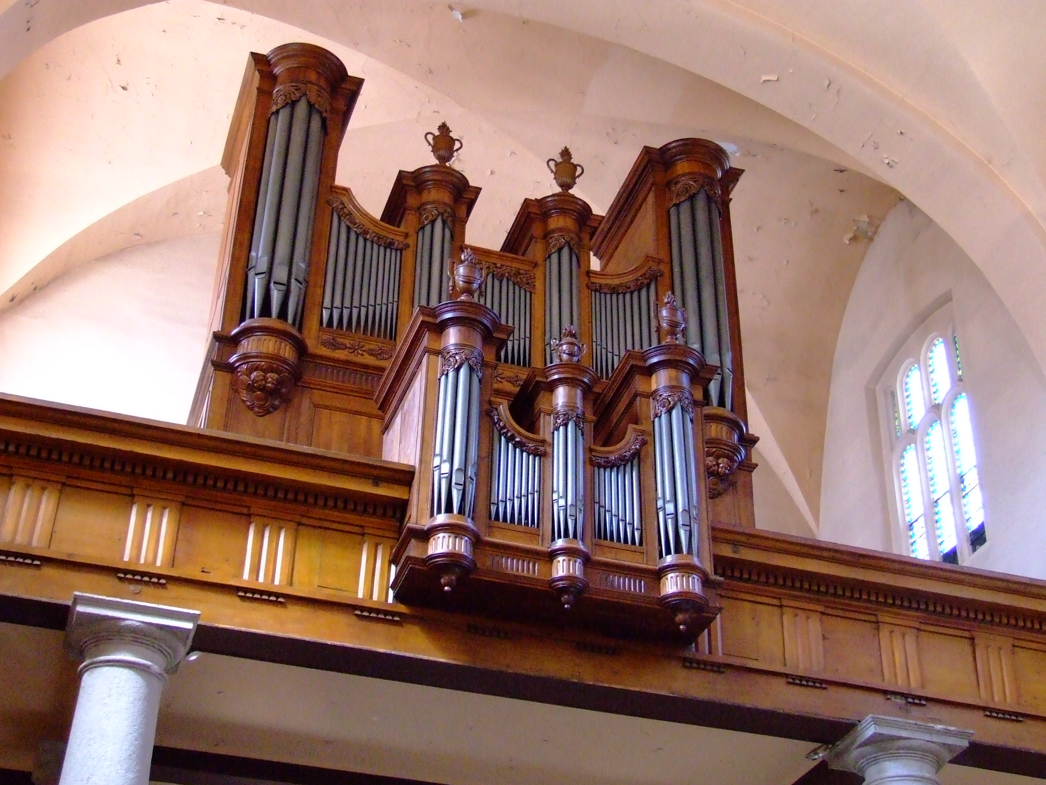 Organ Callinet (1837) church of Notre-Dame, Saint-Etienne